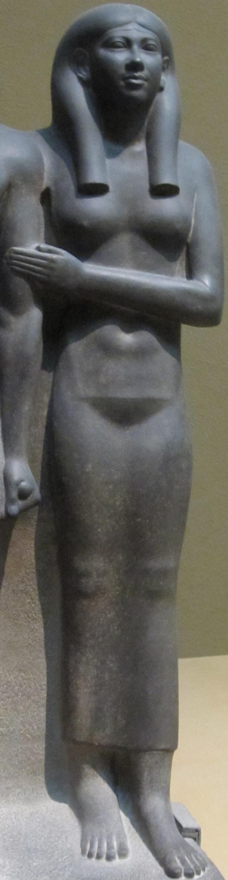 King Menkaura (Mycerinus) and queen Egyptian, Old Kingdom, Dynasty 4, reign of Menkaura, 2490–2472 B.C. Findspot: Giza, Egypt Overall: 142.2 x 57.1 x 55.2 cm, 676.8 kg (56 x 22 1/2 x 21 3/4 in., 1492.1 lb.) Block (Wooden skirts and two top): 53.3 x 180 x 179.7 cm (21 x 70 7/8 x 70 3/4 in.) Greywacke. Accession number 11.1738. More information at .